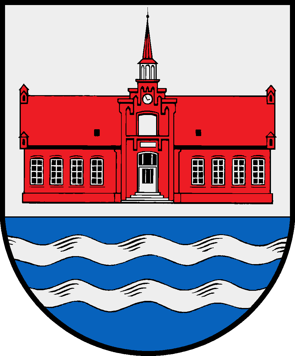 Coat of arms of the municipality Schlesen in Schleswig-Holstein, Germany.